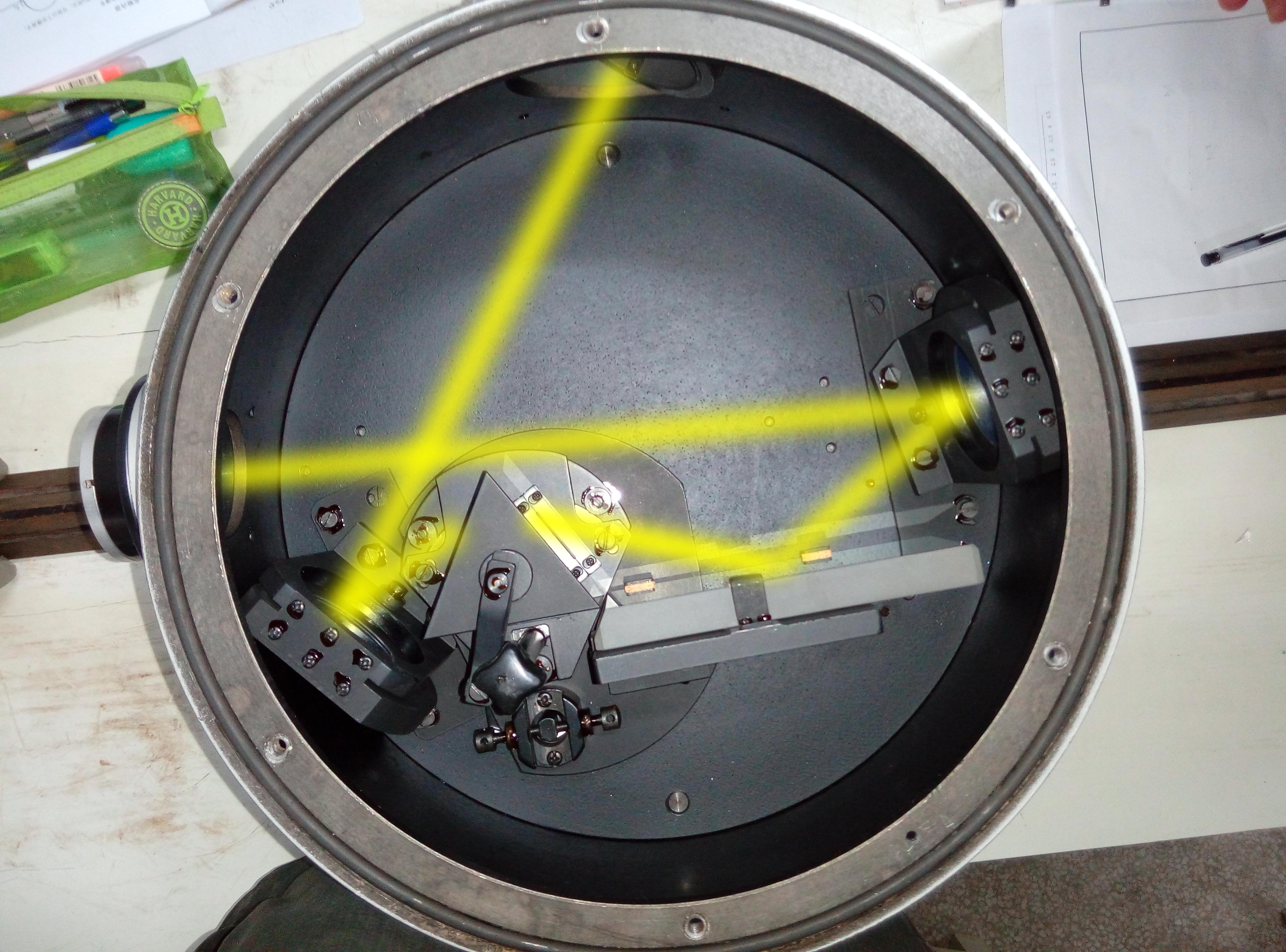 This is a photo shows the internal structure of a reflecting prism monochromator.The light bright yellow line indicates the path of light goes throw it.The monochromator diffracts the light using a single prism and a slit to select the specific light from the spectrum.Also,the prism is adjustable.